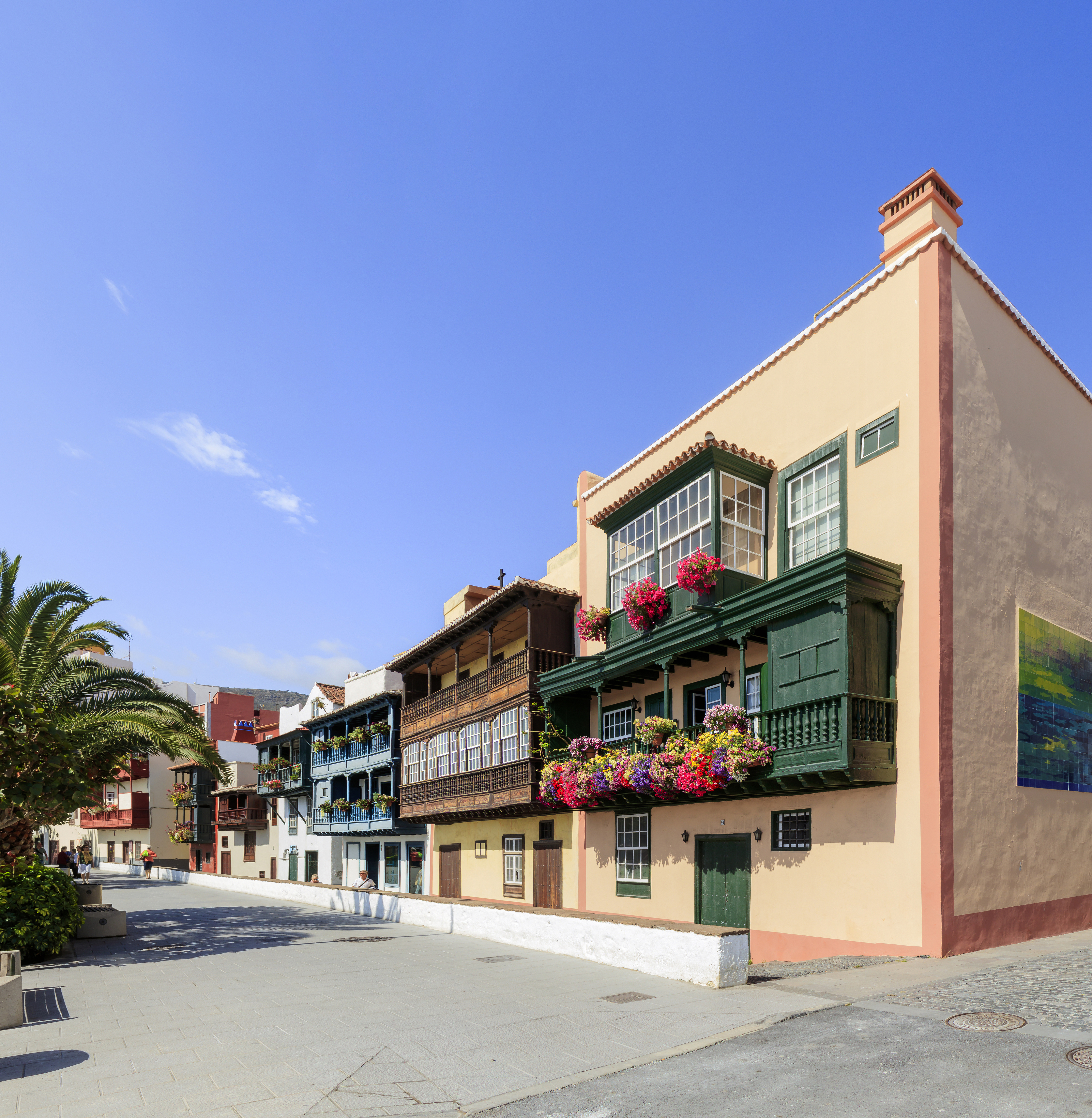 Balcones de la Avenida Maritima, 40 - 46 Avenida Maritima, Santa Cruz de La Palma, La Palma, Canary Islands, Spain.